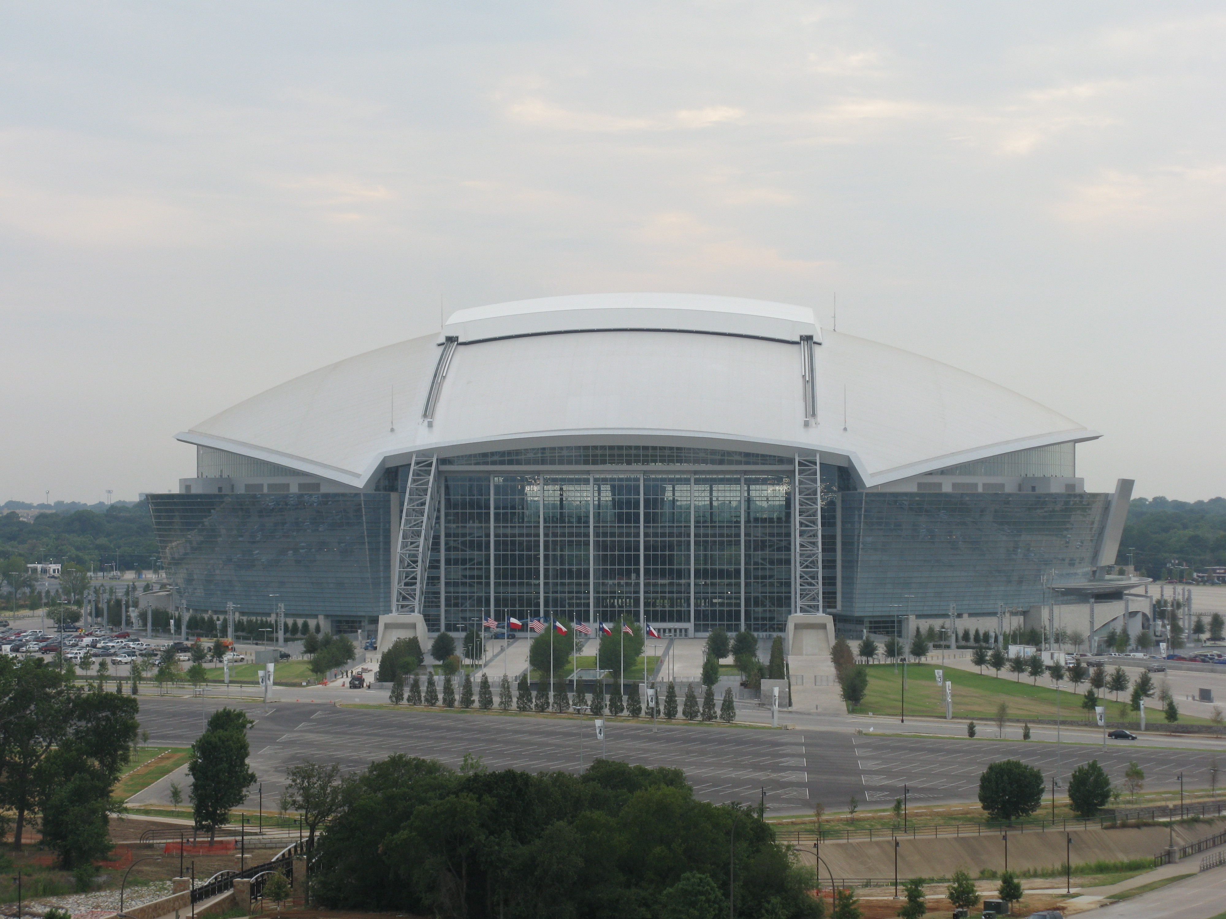 This is a picture of "Cowboys Stadium" I took myself when attending a Texas Rangers game. The picture was actually taken sitting in the last row of Section 335 at Rangers Ballpark in Arlington and turning around backwards.